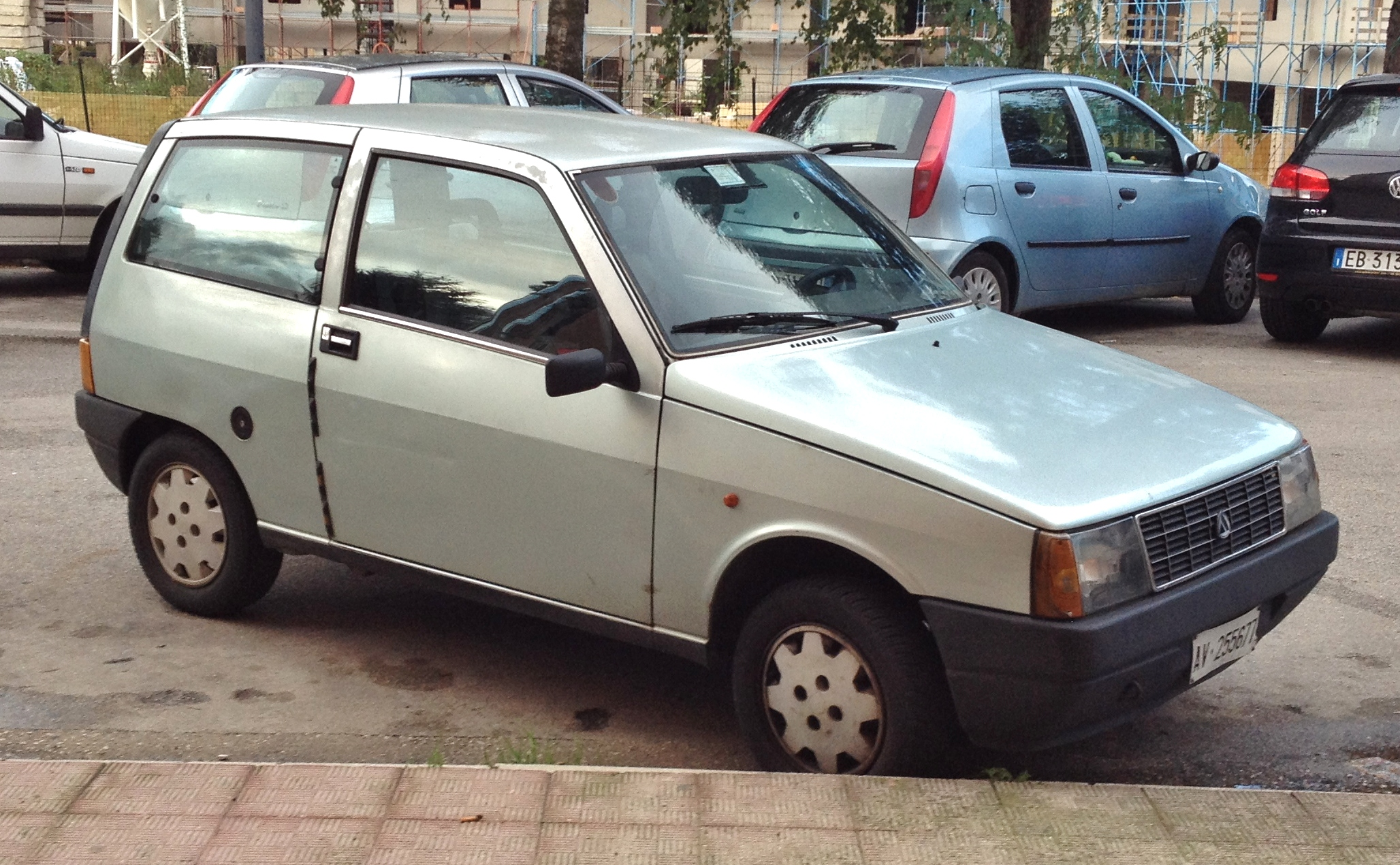 Autobianchi Y10 in Avellino, Italy